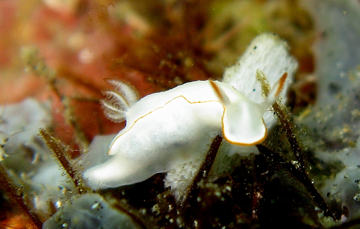 Thorunna furtiva, a nudibranch seaslug